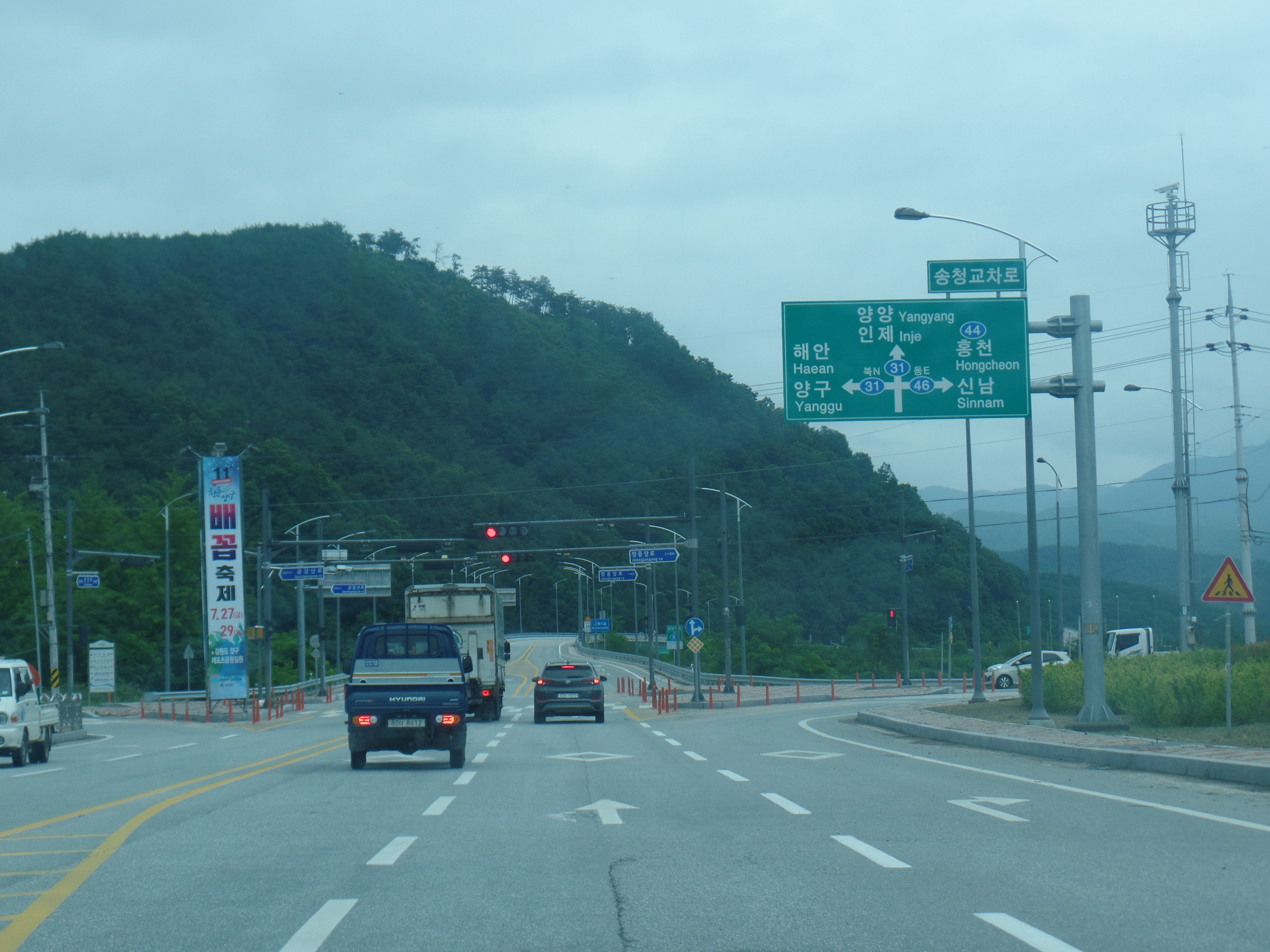 Republic of Korea National Route 31, 46 Songcheong Crossroad(National Route 31 is Southward, National Route 46 is Eastward Direction)